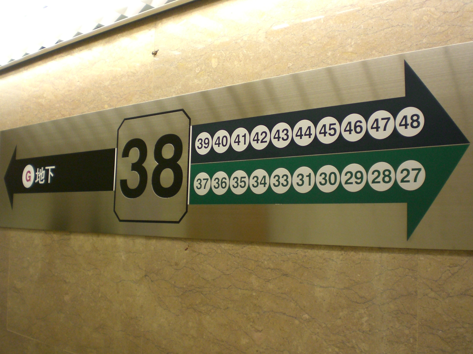 入境事務大樓, Elevator hall, Immigration Tower, Wan Chai, Hong Kong.